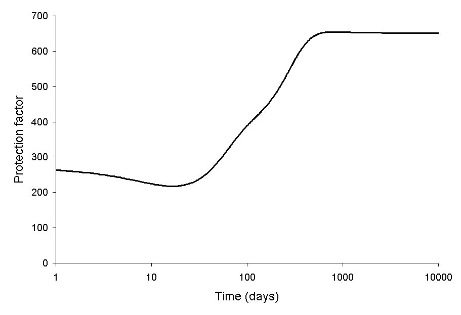 The protection factor provided by 30 cm of concrete sheilding where the source is the idealised Chernobyl fallout. Note that this image was drawn using data from the OECD report, [1], the second edition of 'The radiochemical manual' and 'Radiochemistry and Nuclear Chemistry'